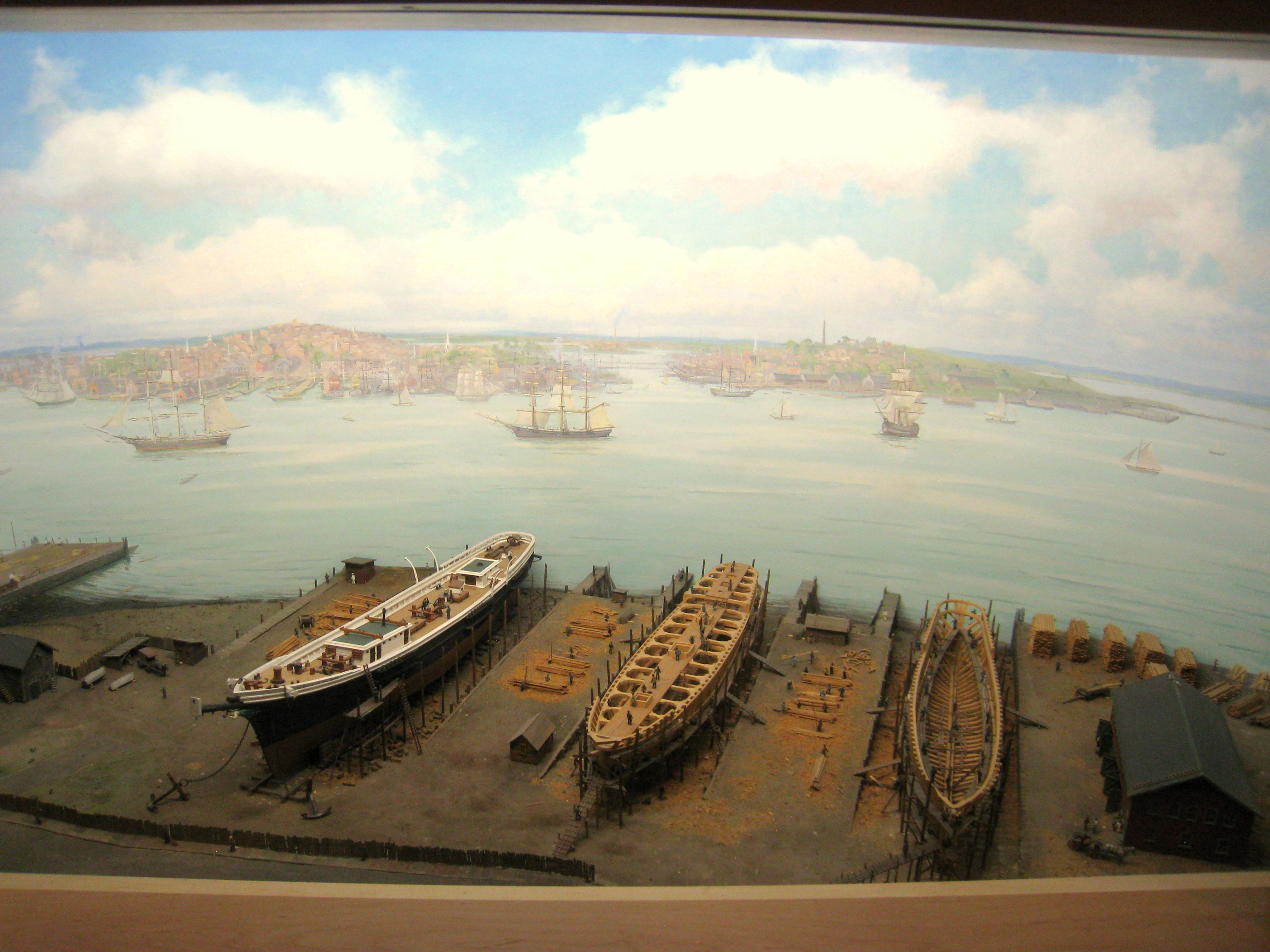 Diorama of Donald McKay's Shipyard (East Boston, July 1852) in Museum of Science, Boston, Massachusetts, USA. Note that there was no prohibition against photography in the museum.